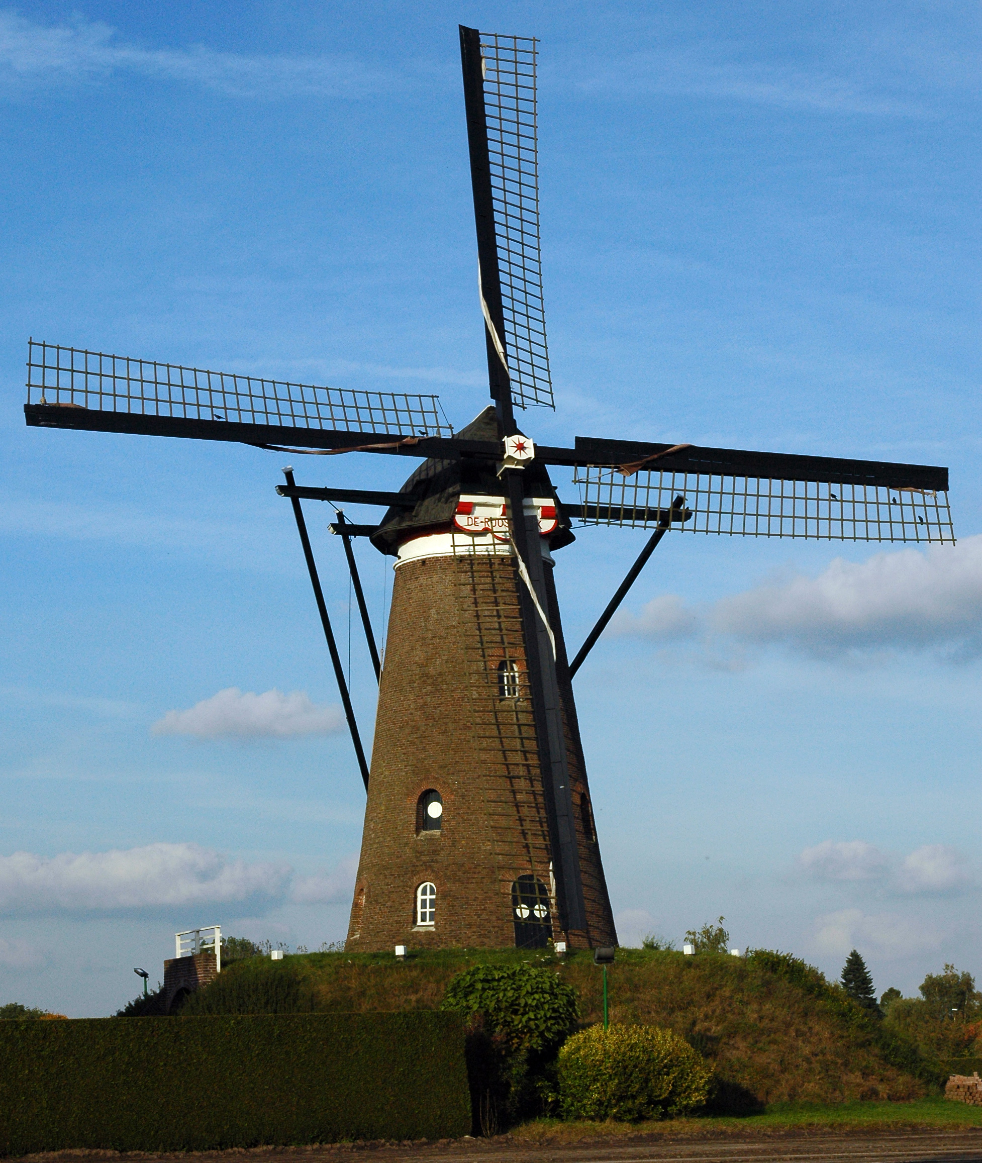 Windmill "De Roosdonck", Nuenen, the Netherlands